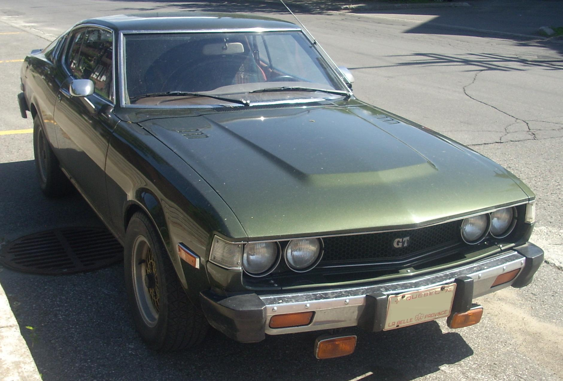 1976 Toyota Celica photographed in Montreal, Quebec, Canada.